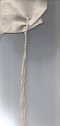 Photo scanned by me of my "tzizit" (tassel) made after Maimonides' prescription